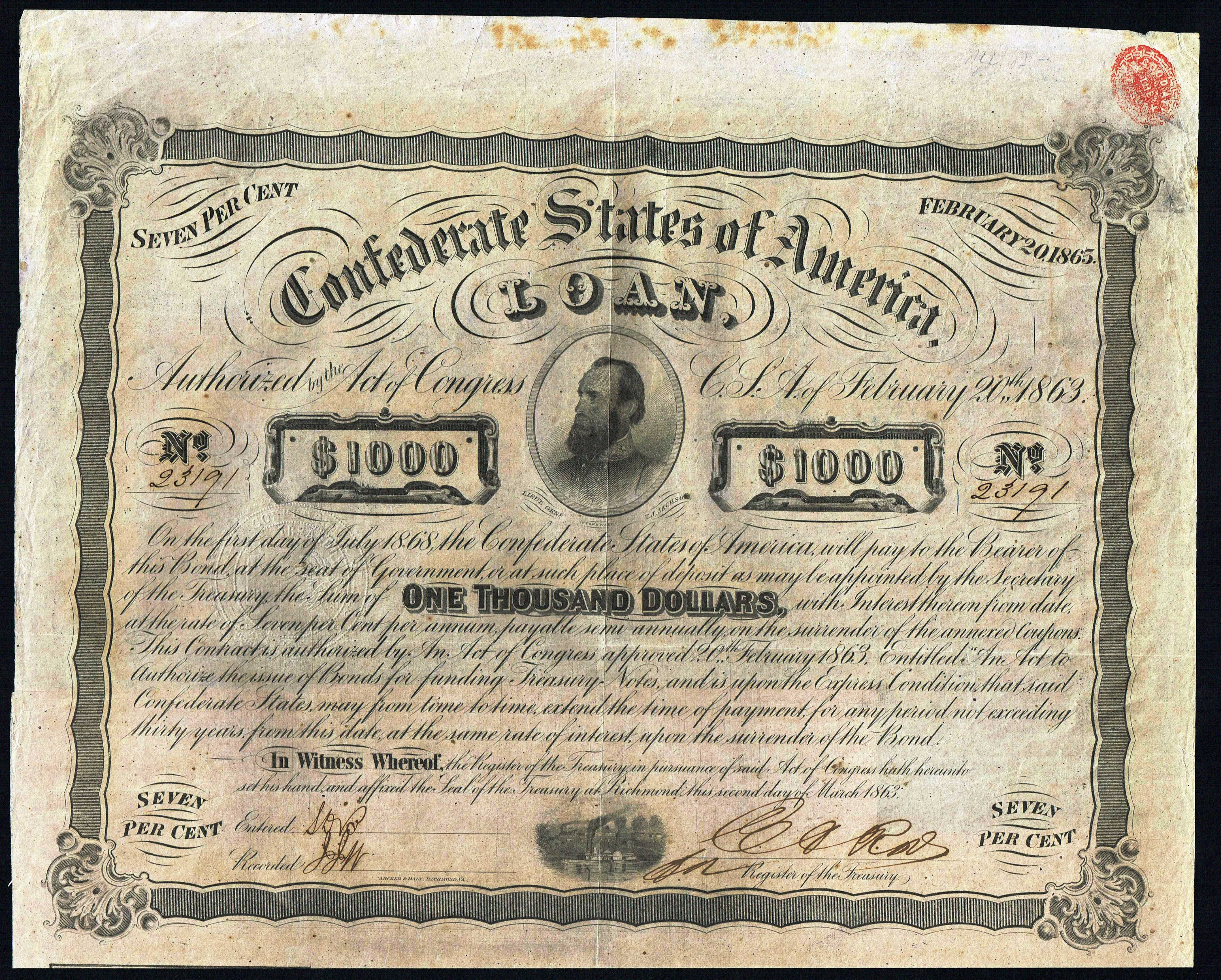 Loan of the Confederate States of America, issued 2. March 1863